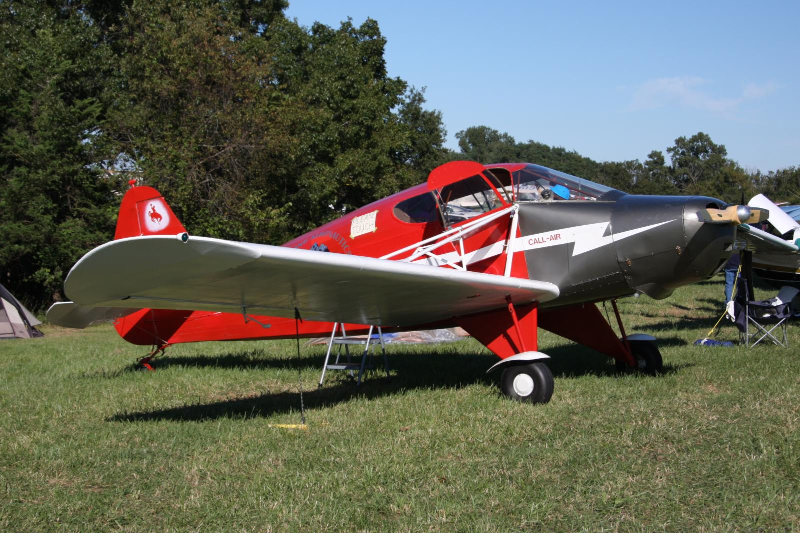 1951 Callair A-2 C/N 132 at 2010 Blakesburg Fly-In